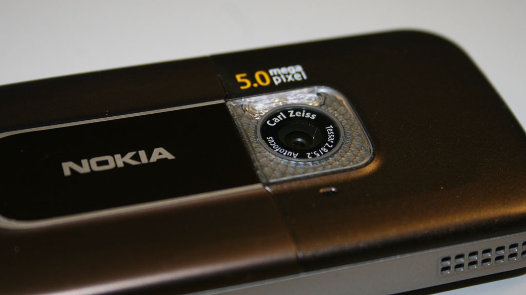 Nokia 6720 Classic